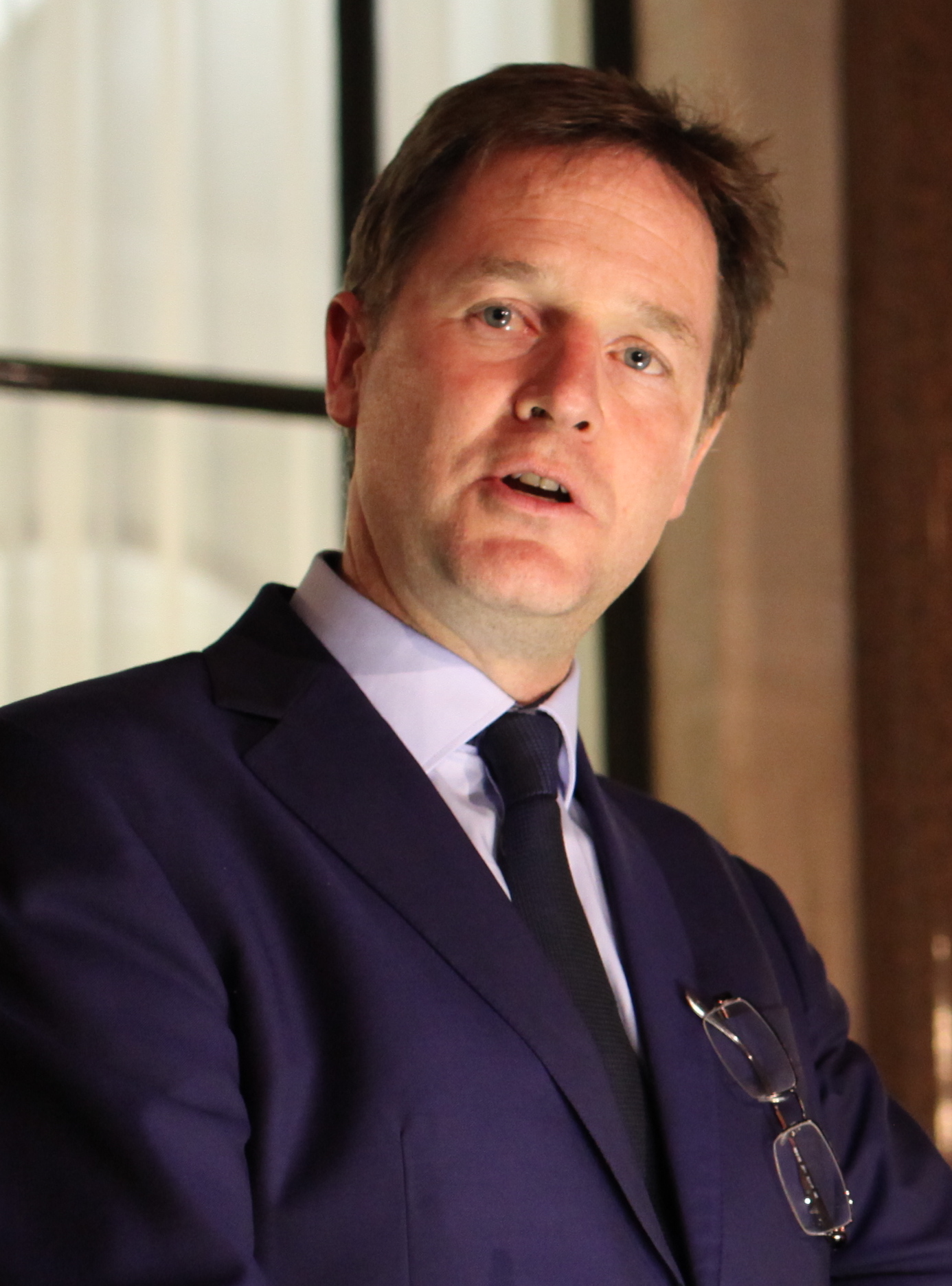 Nick Clegg